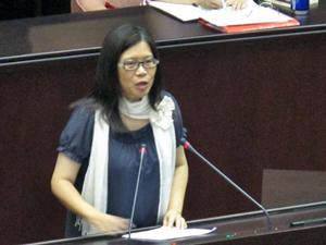 Kuan Bi-ling